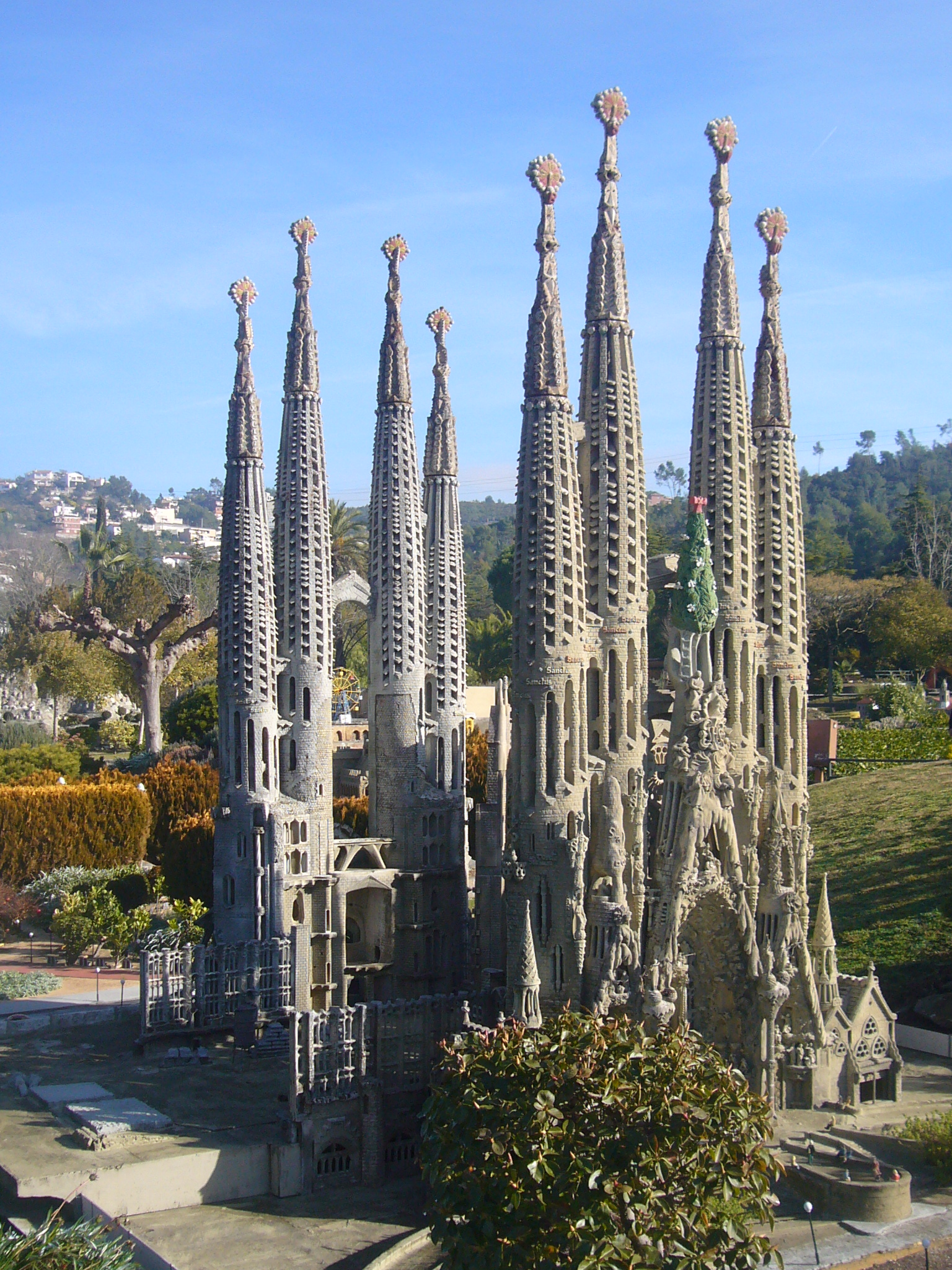 Scale model at the "Catalunya en Miniatura" miniature park : Sagrada familia. 13000 hours of work were needed